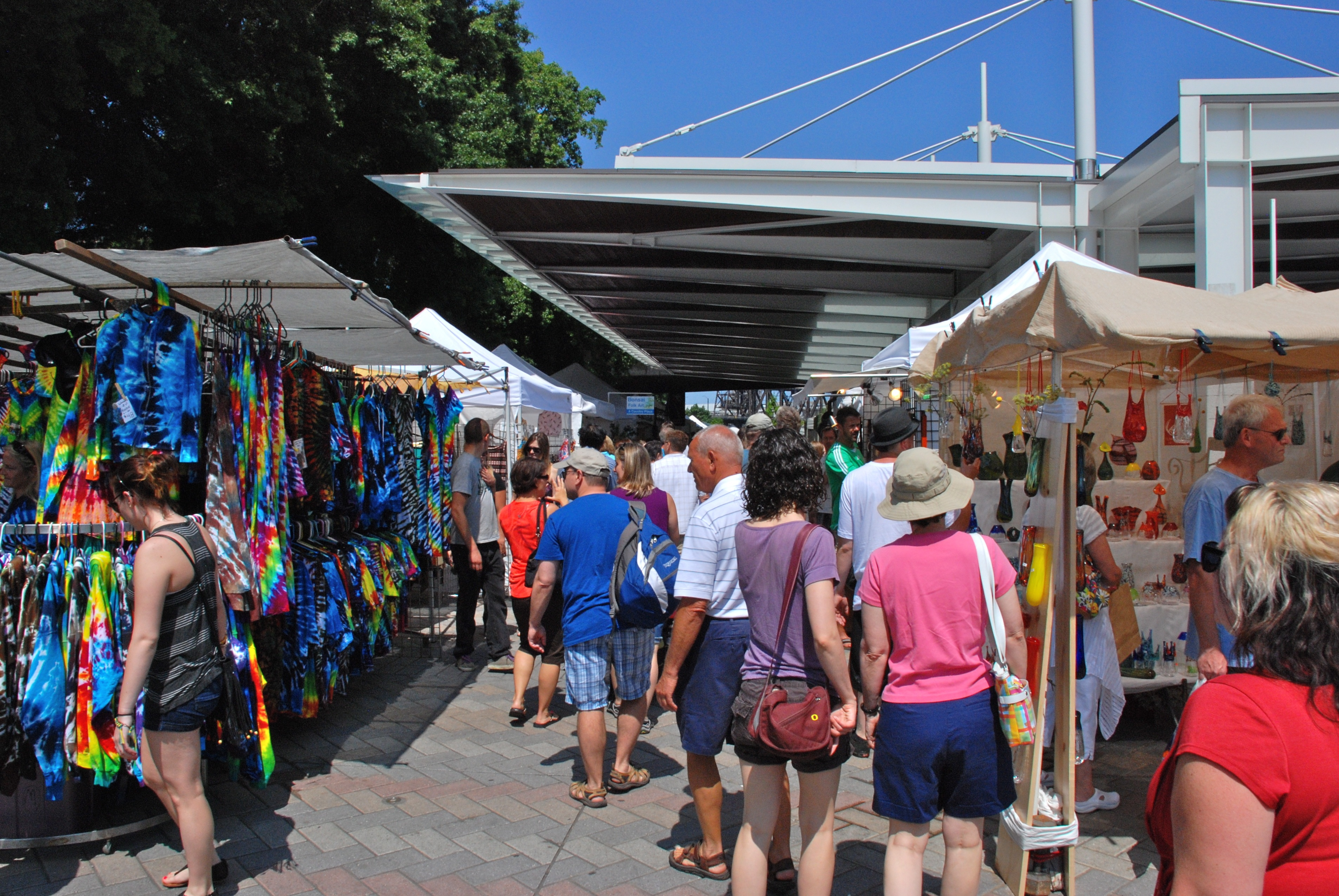 The Saturday Market, in Portland, Oregon. This view is looking north along the west side of the covered area (also known as the "pavilion") at the market's post-2008 location, in Tom McCall Waterfront Park immediately south of the Burnside Bridge.